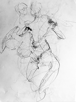 Illustrates the typical "gesture" exercise in which a model assumes and active pose for five minutes or less and the student or artist captures the movement and energy of the pose.